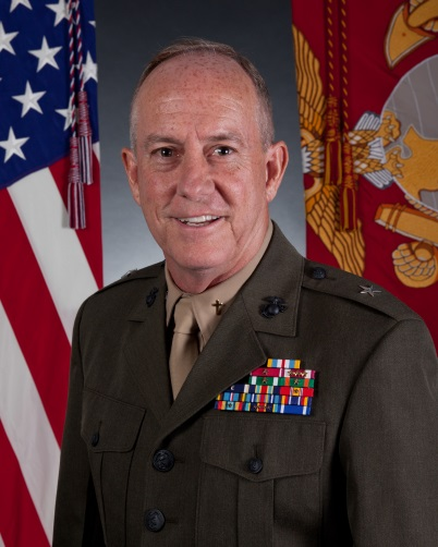 Rear Admiral (lower half) Brent W. Scott